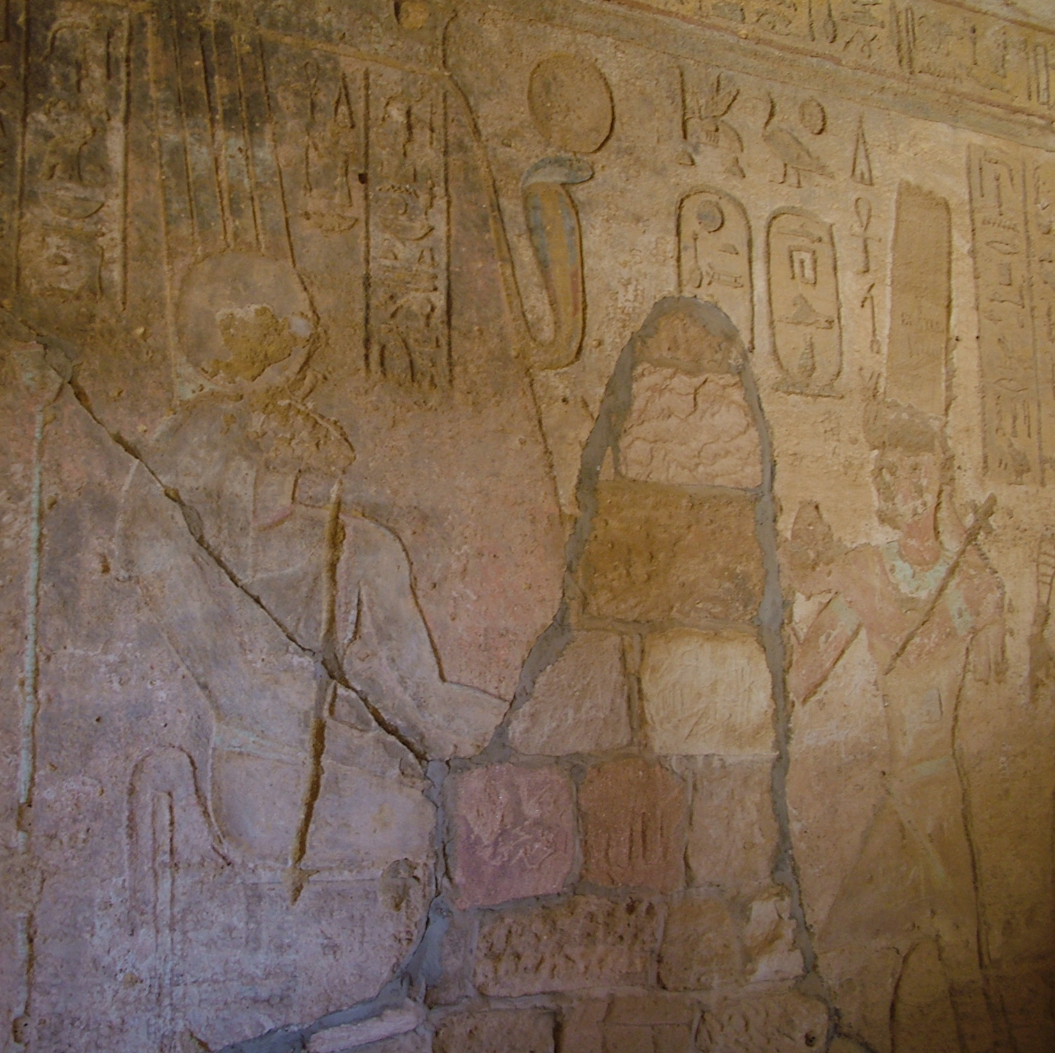 Representation of God Amun-Ra and Taharqa in Gebel Barkal (Sudan), in temple B300